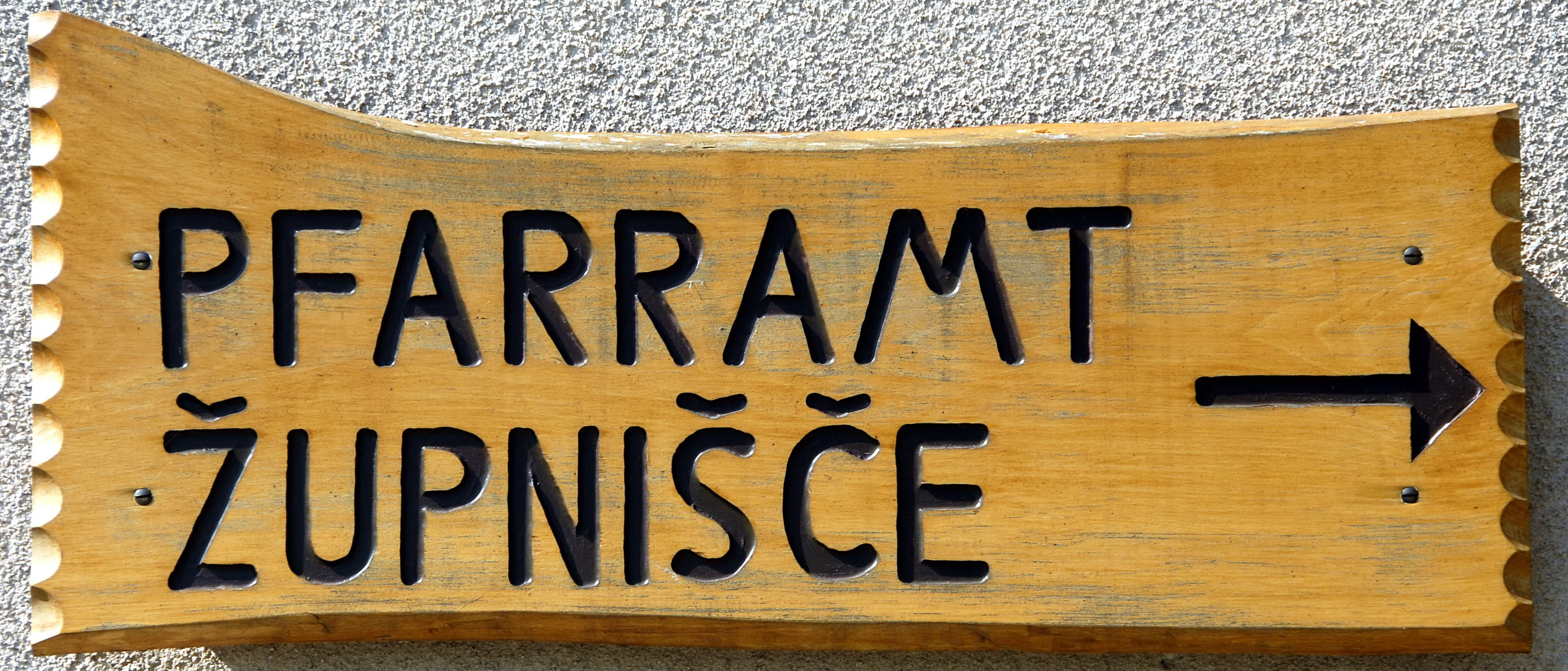 Bi-lingual decal information at the community Saint Margareten in the Rosental, Carinthia, Austria